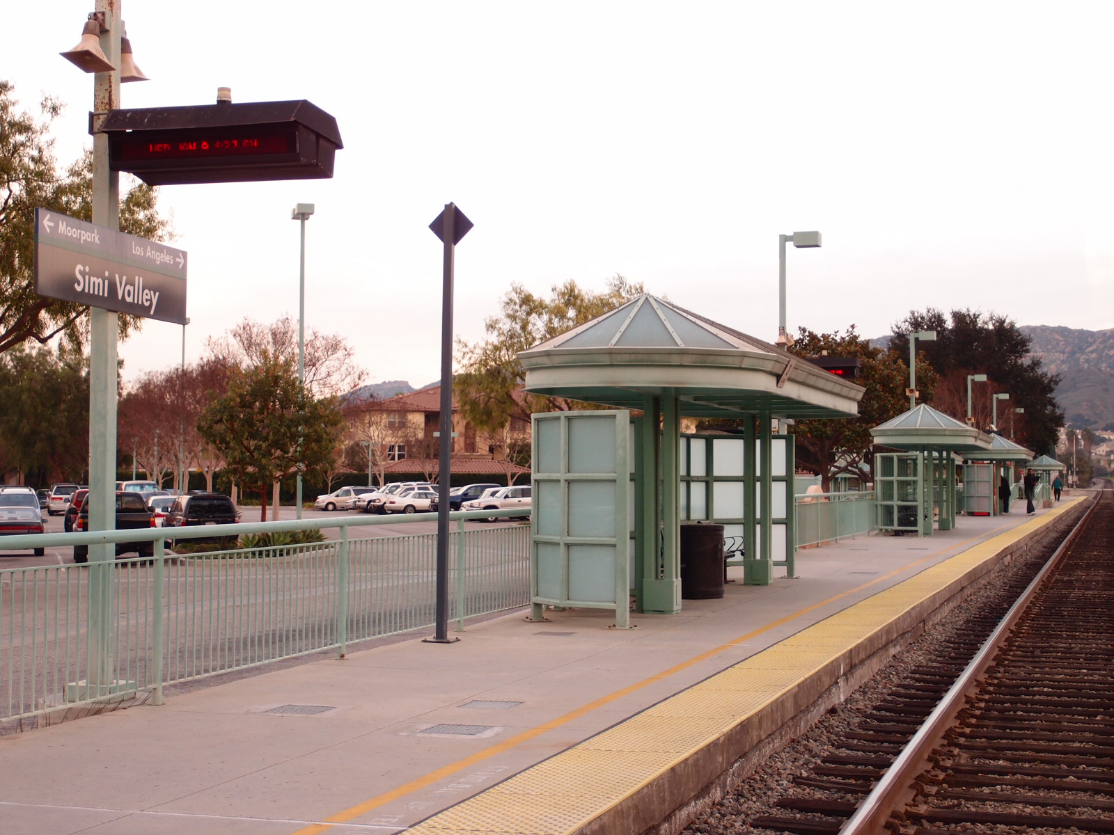 Simi Valley train station — Amtrak and Metrolink Ventura County Line station, and bus lines transit hub. In Simi Valley, eastern Ventura County, California.